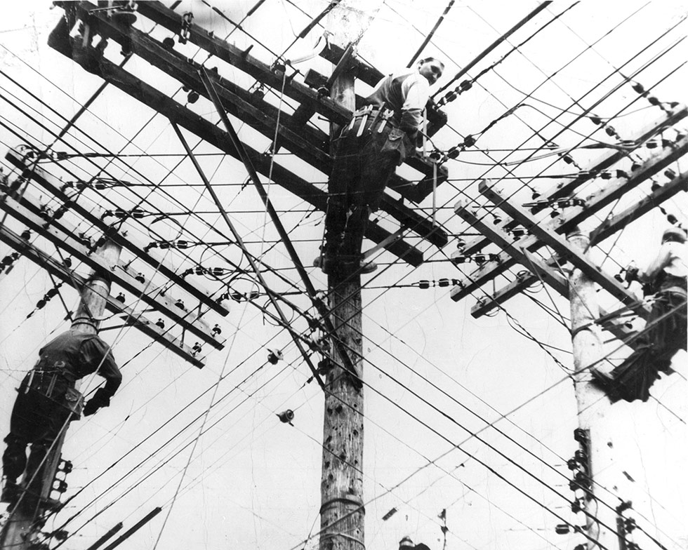 Montreal Light, Heat and Power Consolidated linesmen at work. Source : Hydro-Québec Archives, F9/700776_4.